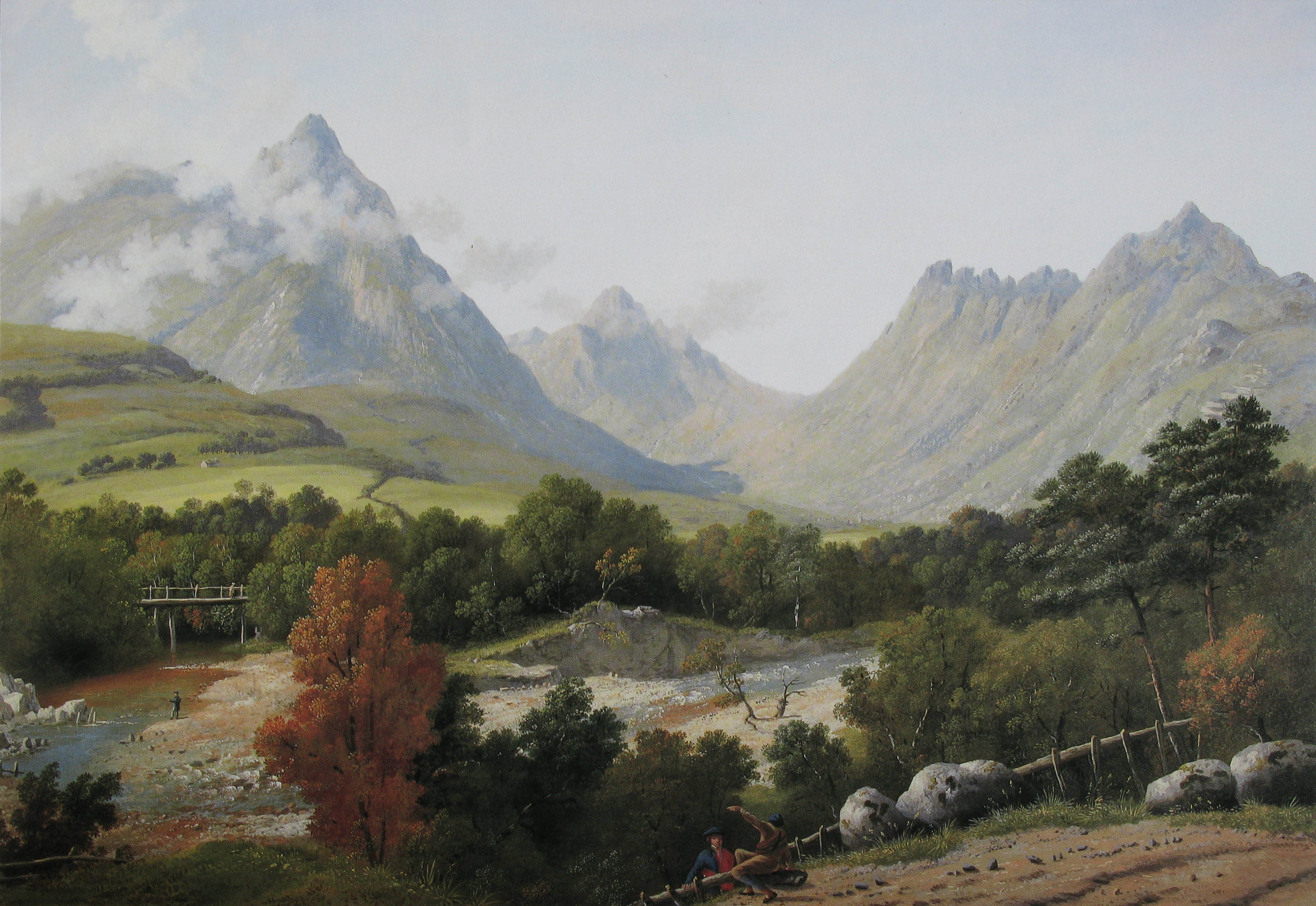 Arran, Glen Sannox; Oil on Canvas, 89.5 x 125 cm